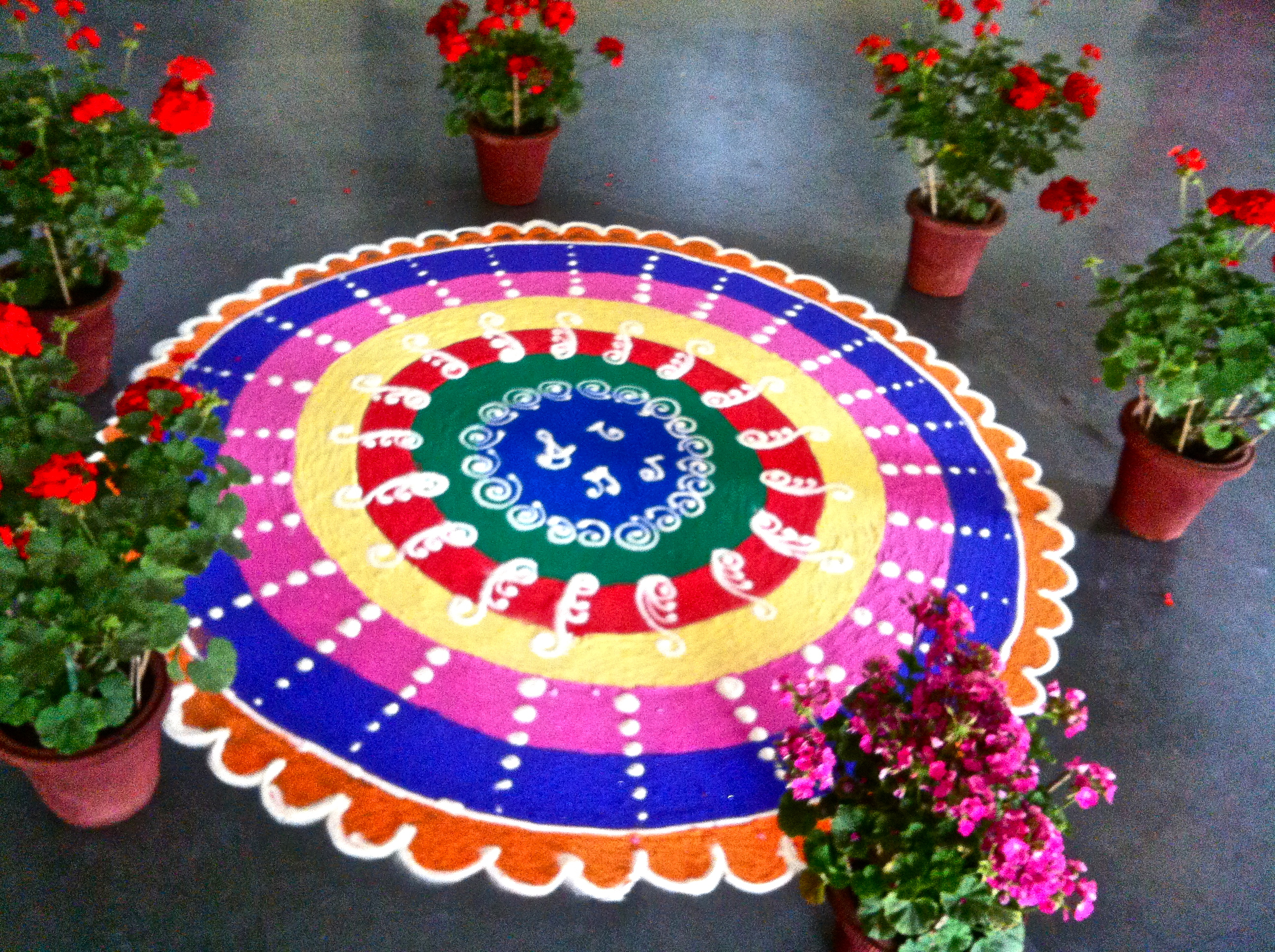 Rangoli, Miranda House, Delhi.